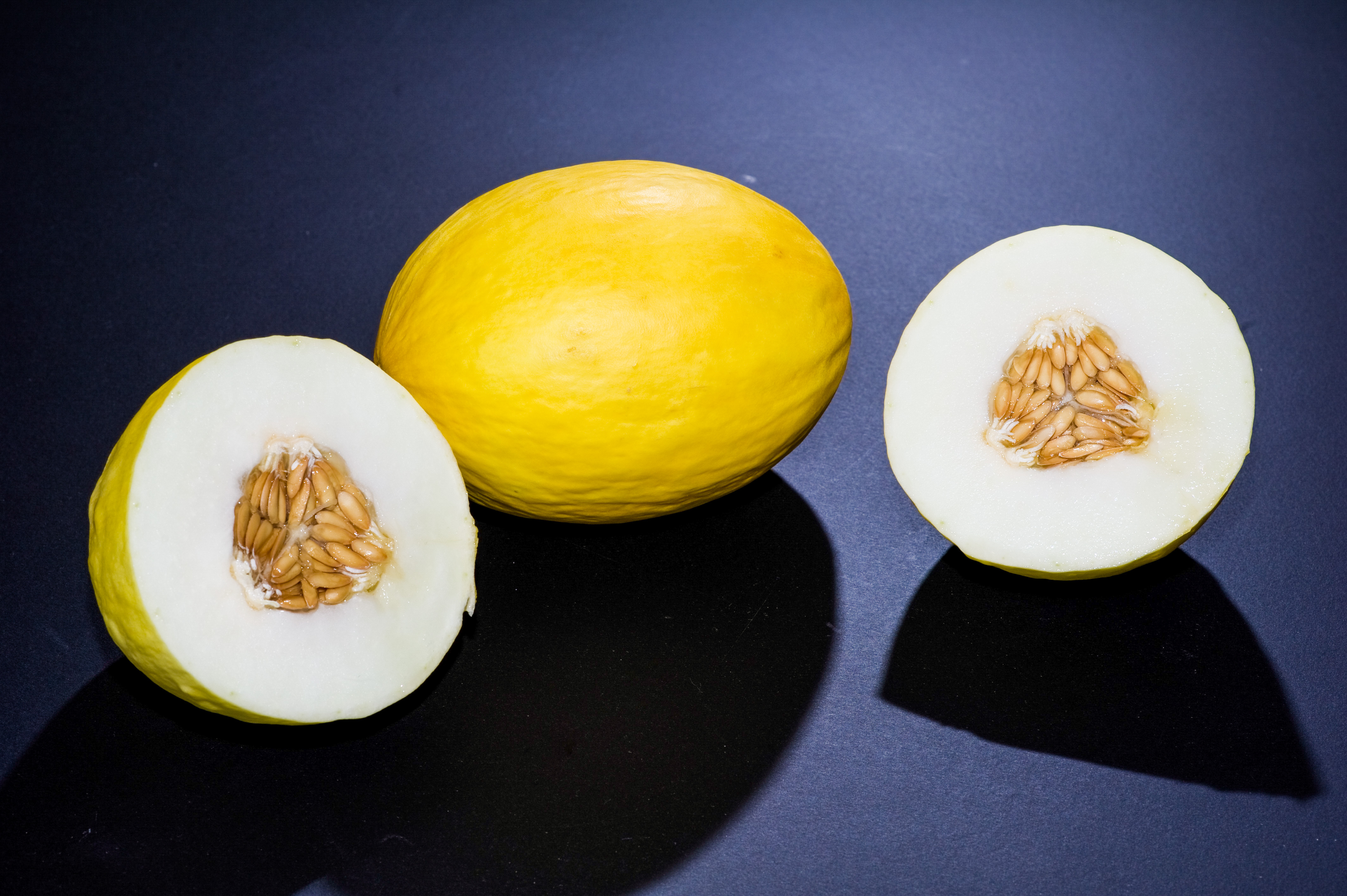 Canary melons cut and whole.